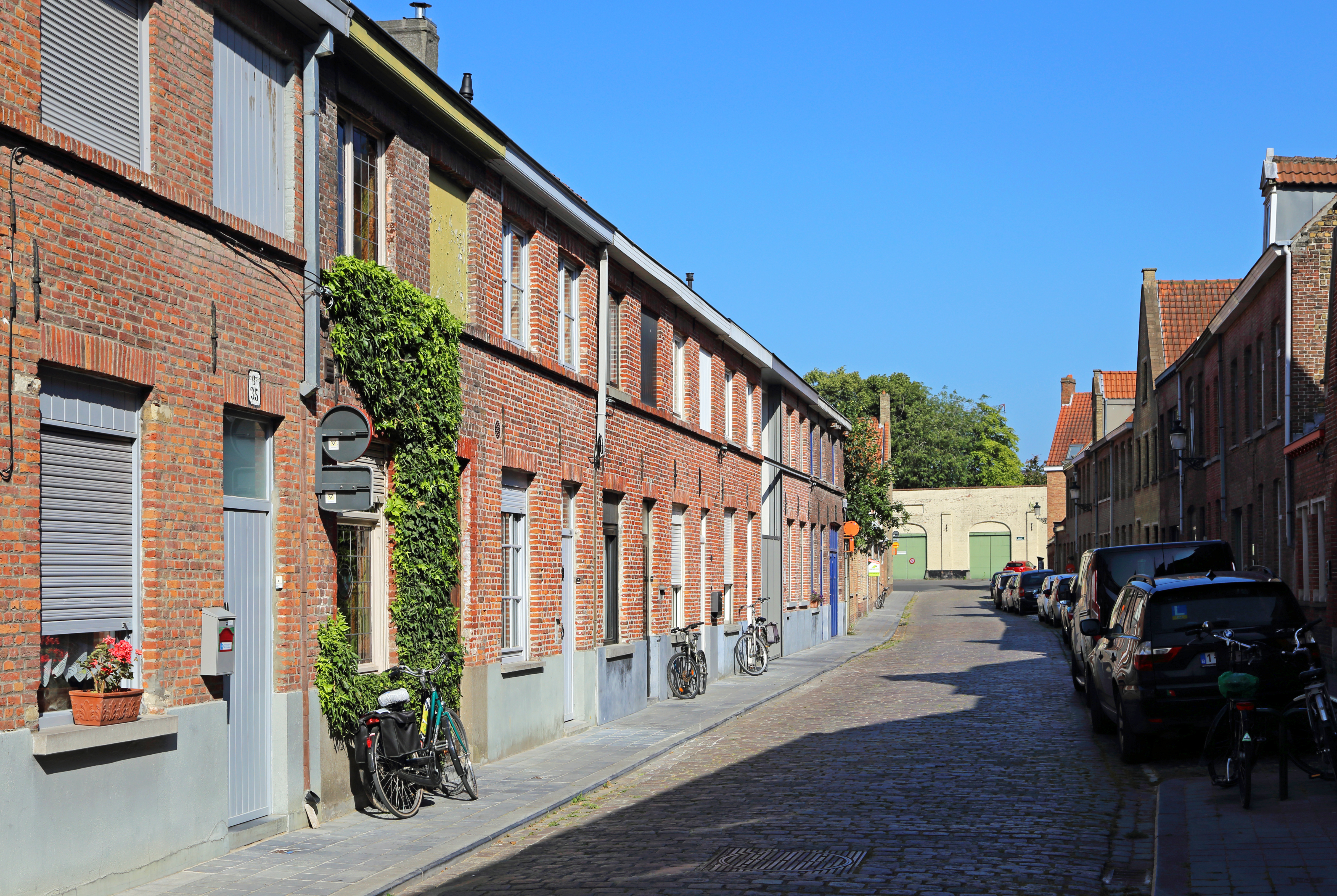 Bruges (Belgium): Willemijnendreef (street)